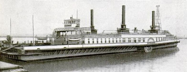 Photograph of the ferry Contra Costa, sister ship to the Solano.